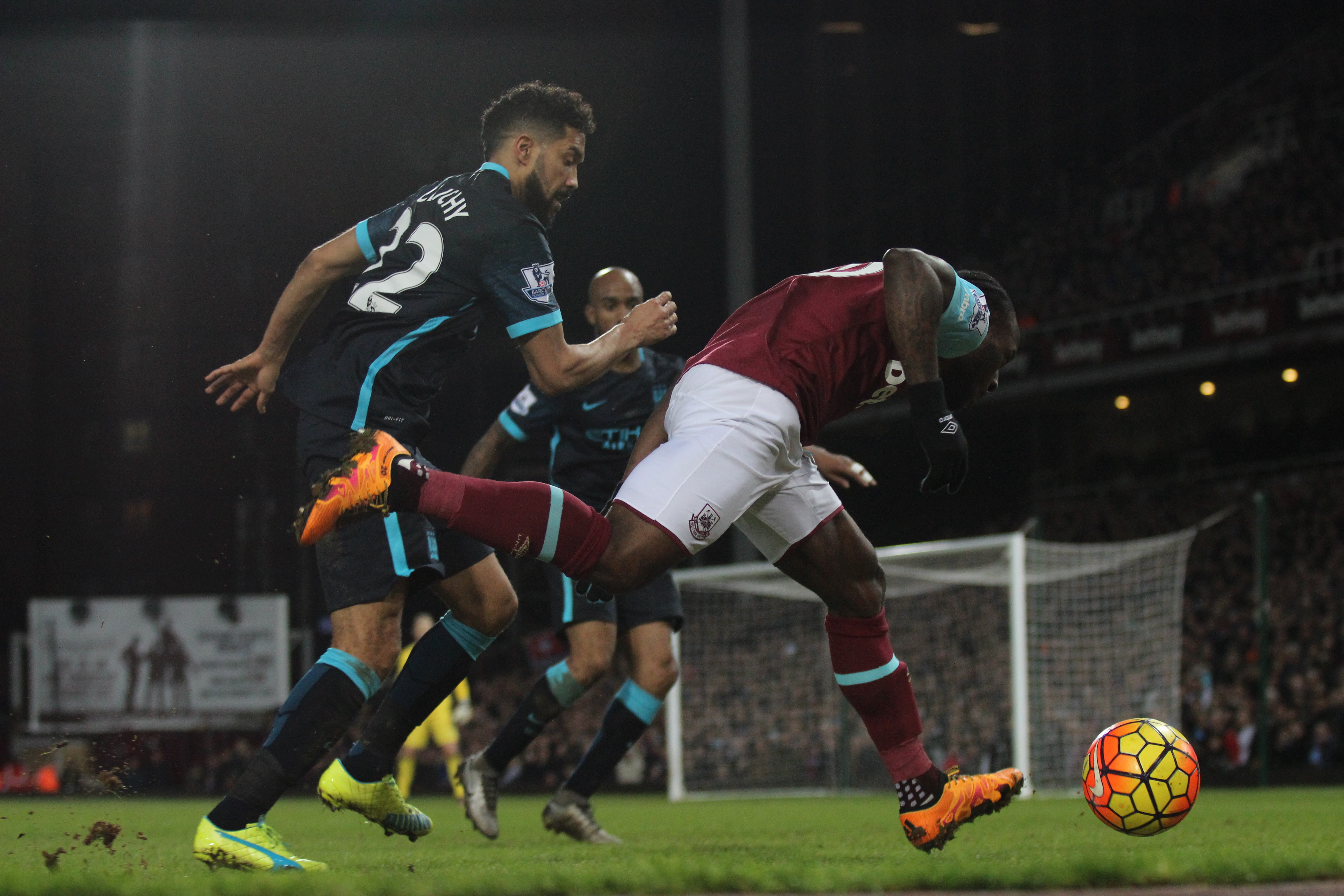 Victor Moses of West Ham on the ball during the game against Manchester City.